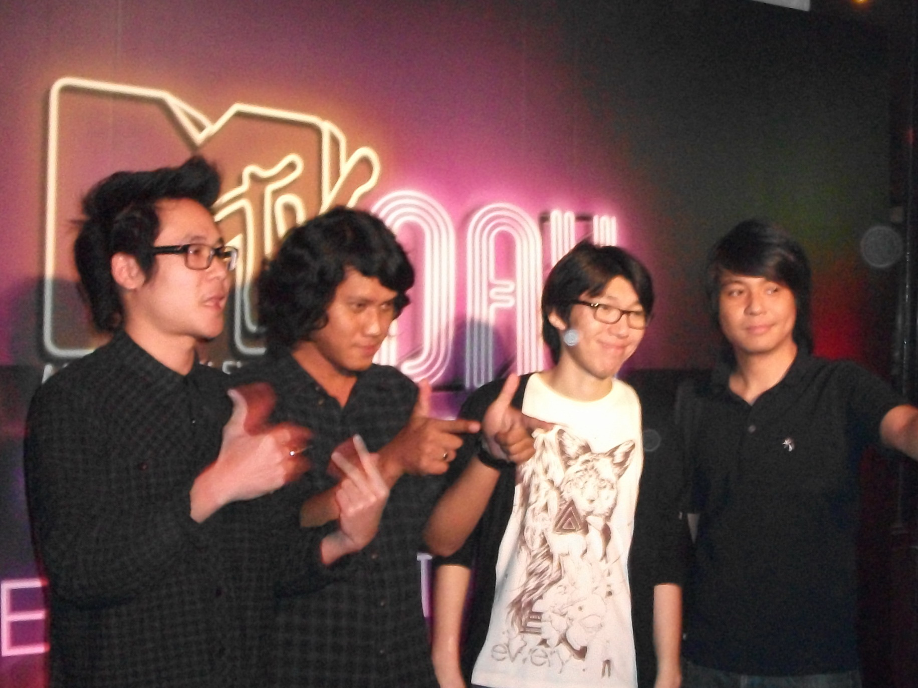 Ewery at MTV 8th anniversary